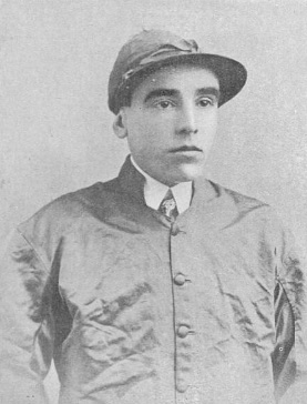 English jockey Charlie Trigg (1881-1945), pictured in 1903.